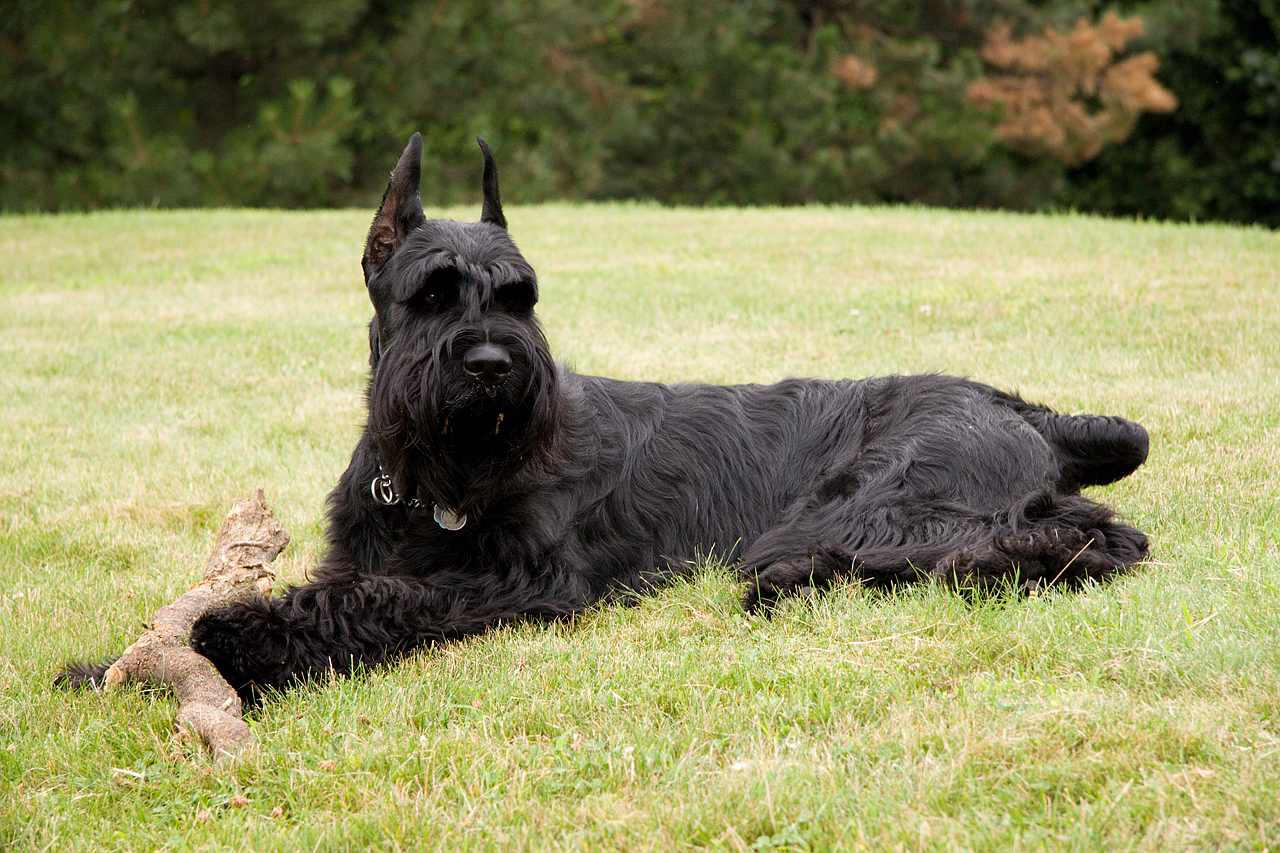 A male Giant Schnauzer lying on the grass with a log by his feet.